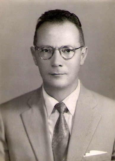 Romano Galeffi, a philosopher and professor of Estetics at Universidade Federal of Salvador de Bahia, and his wife Gina Magnavita, professor of italian philology in the same university.